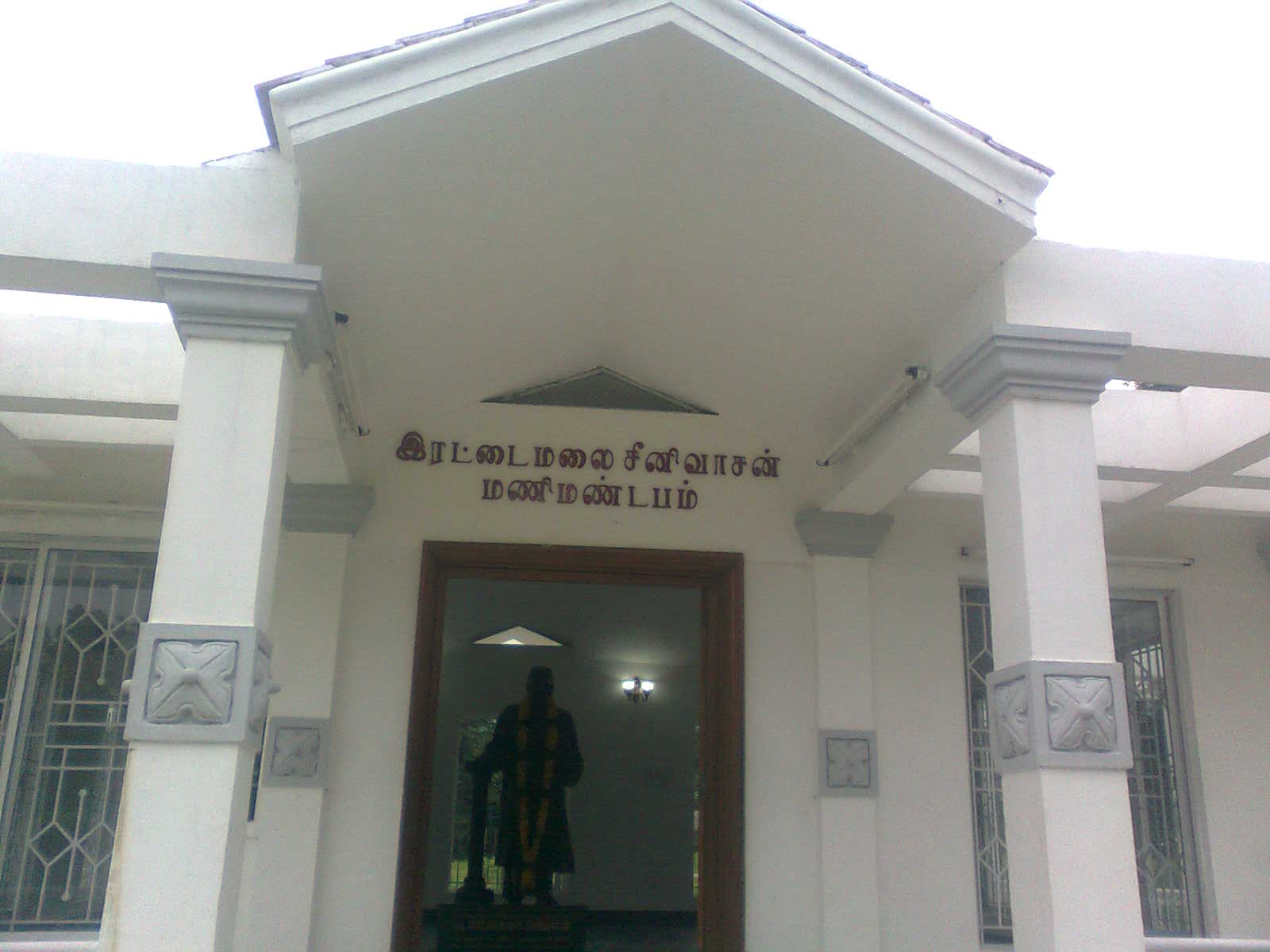 This is the mamorial building of Thiru. Irattai malai Sreenivasan suituated in Gandhi Mandapam area opposite to Anna University, Chennai